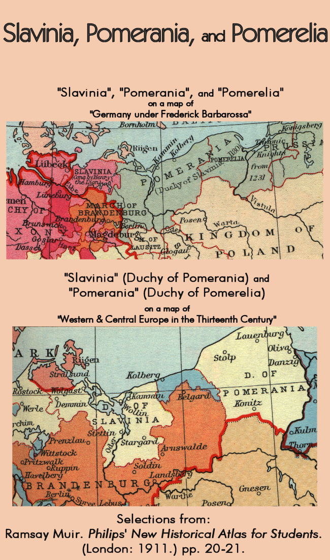 Maps of Slavinia, Pomerania, and Pomerelia in the twelfth and thirteenth centuries. Selections from Ramsay Muir. Philips' New Historical Atlas for Students. (London: 1911.) pp. 20-21.